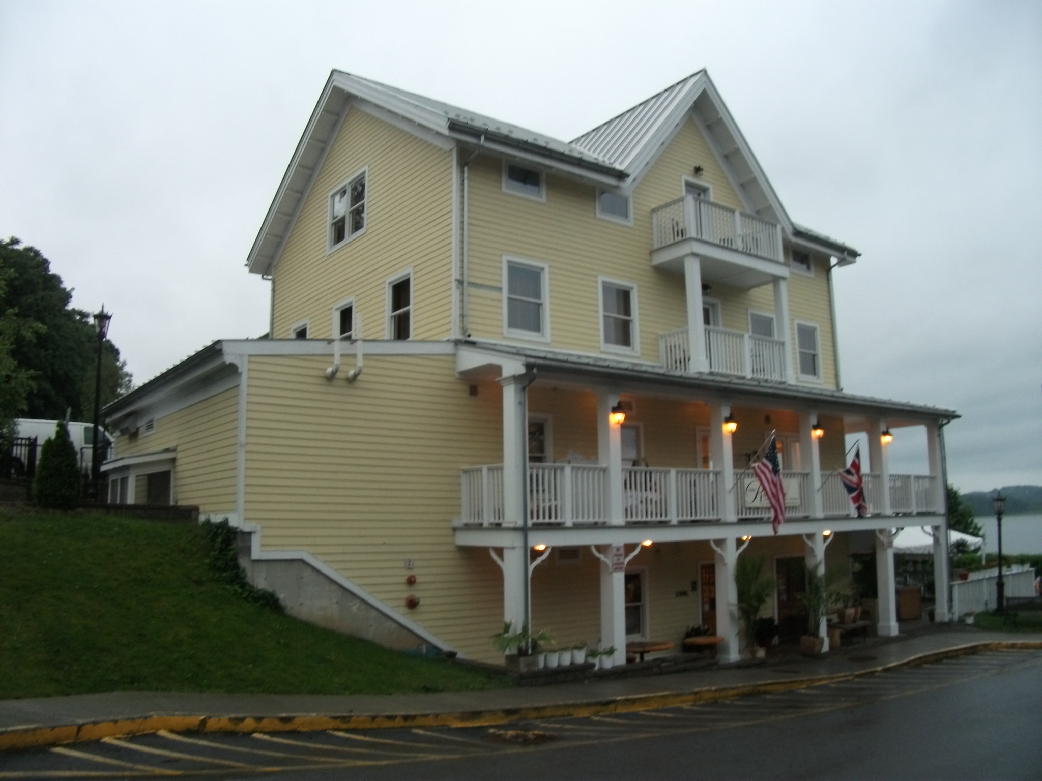 The 1855 Rhinecliff Hotel — in Rhinecliff, Rhinebeck, New York. Within the Hudson River Historic District.